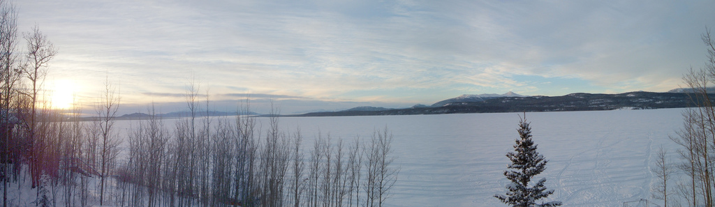 Wintery sunrise (and sunset) at 3PM in January over Marsh Lake, Yukon.